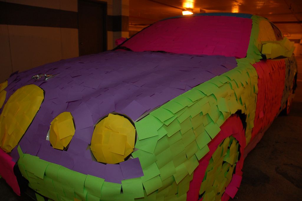 Jag covered with PostIt Notes as a practical joke